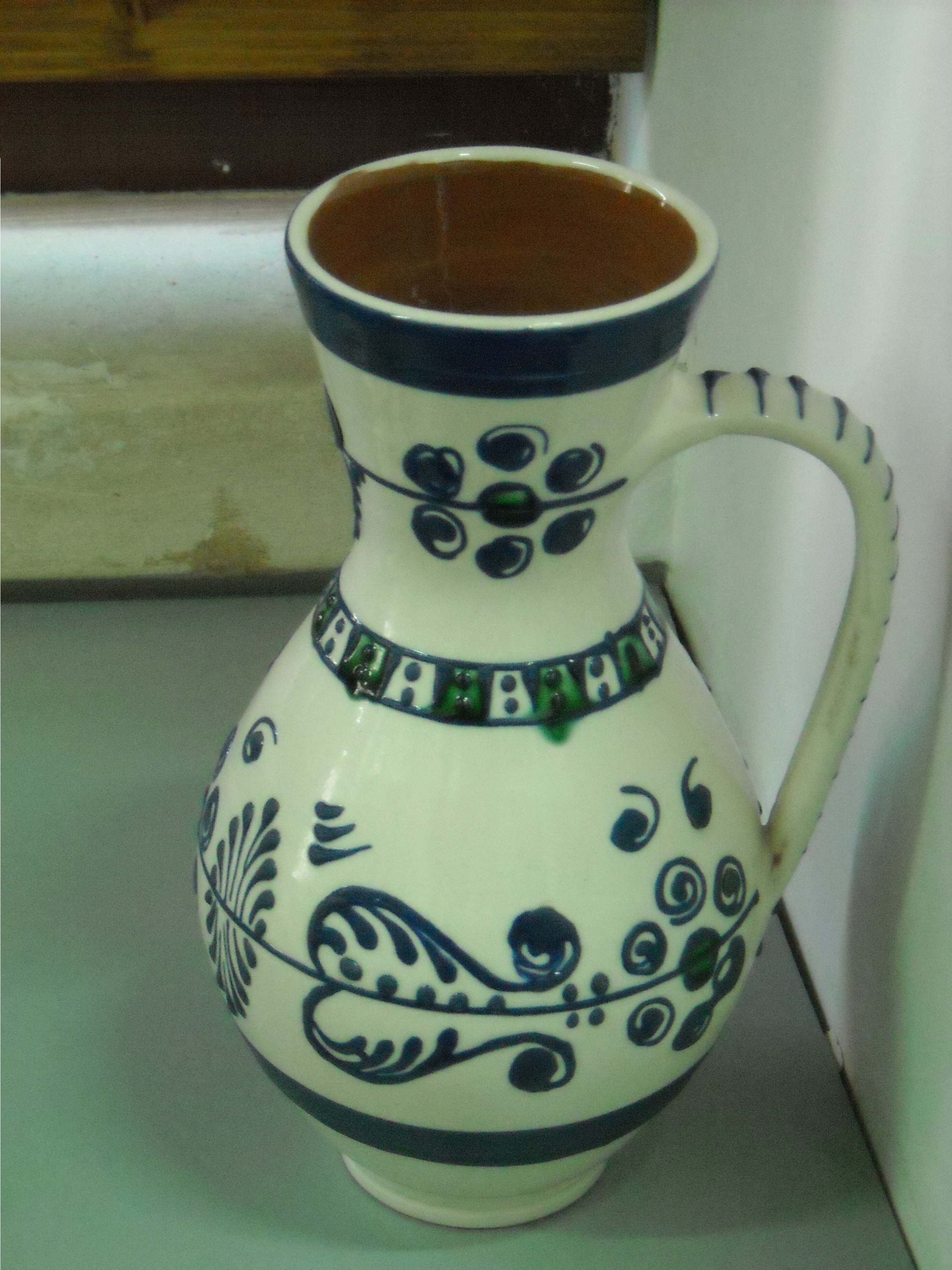 earthenware jar from Iara/Alsójára, Romania